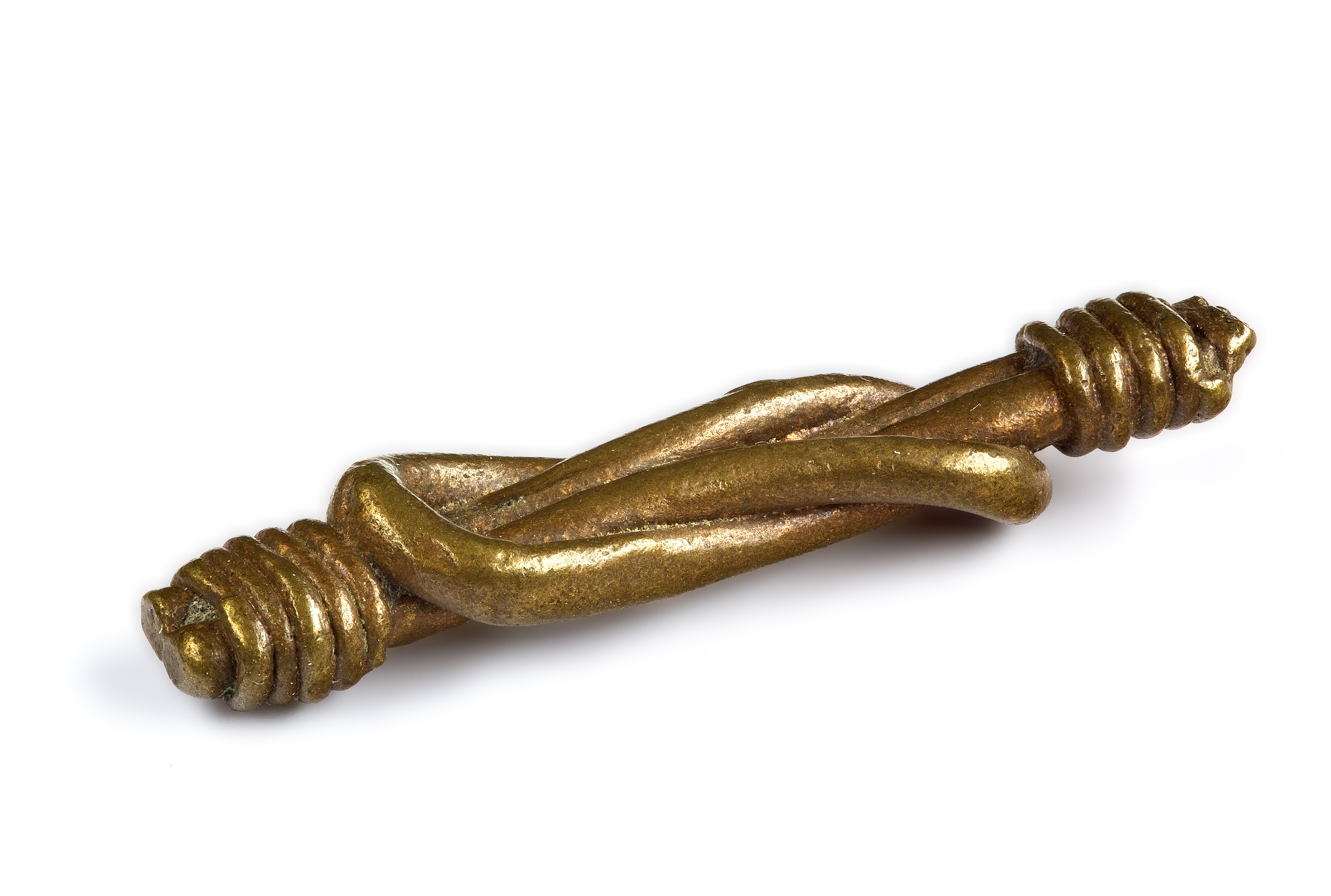 Figurative weight Knot size : 0,6 x 4,4 x 1 cm mass : 9,5 g material : Brass technique : Lost-wax casting